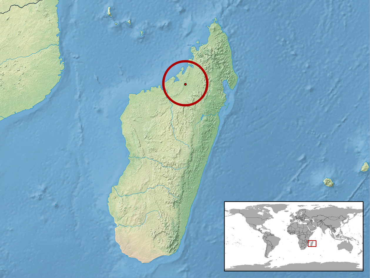 Sirenoscincus mobydick n. sp. The species is only known from the type locality of the Bongolava plateau: Northwest Madagascar, Sofia region, commune rurale of Port Bergé II, 3 km from the village of Marosely, plateau of Bongolava (15°38’49.7’’S ,47°34’59’’E), 250 m above sea level, 14-15.XI.2004, collected by Mirana Anjeriniaina, UADBA R70487 (field number MA293 = ZCMV 12920).